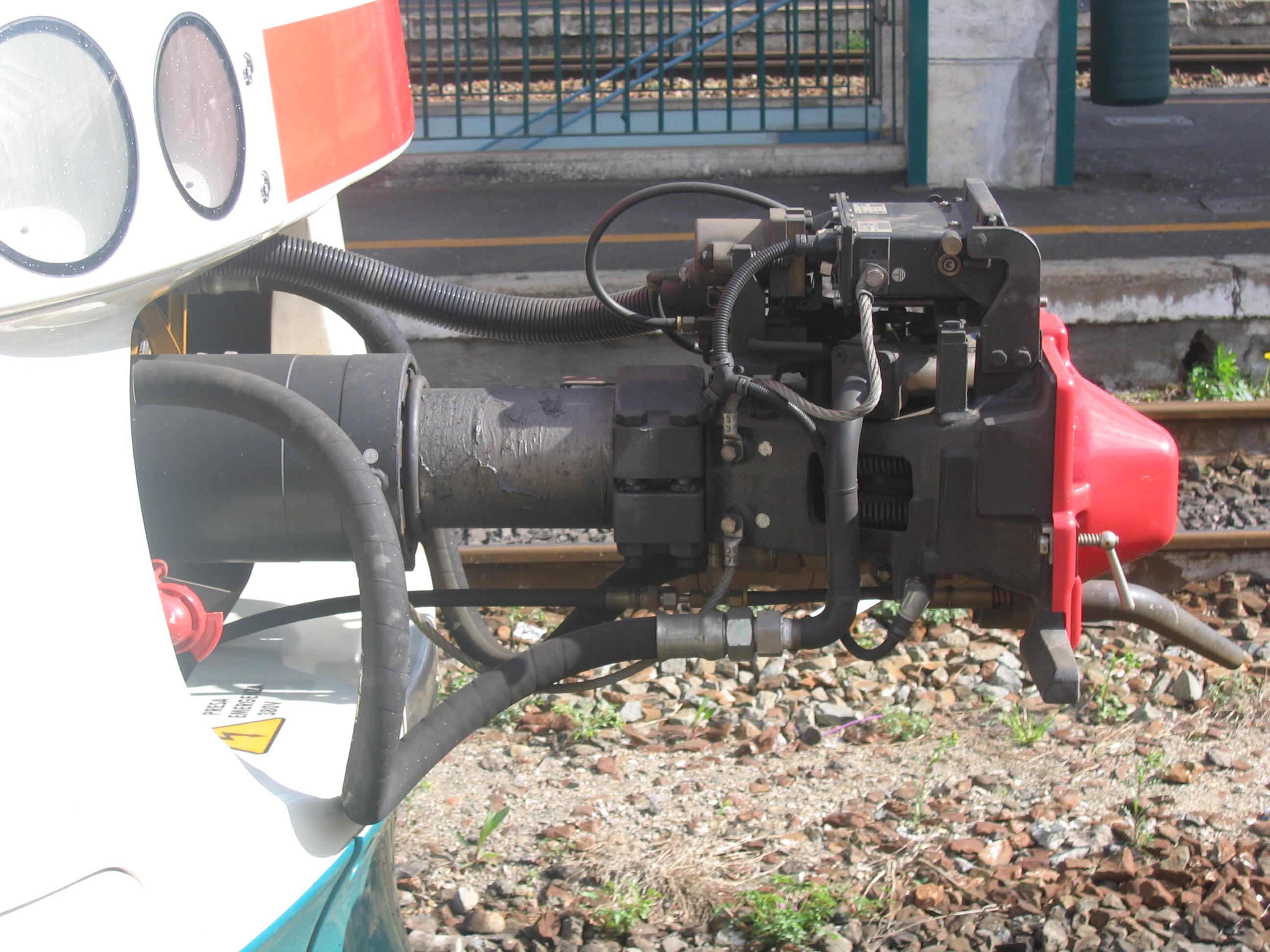 ALn501-502 "Minuetto" MD21, coupling system. Built by Alstom, part of Coradia/LiNT family. Design by Giugiaro. Santhià (TO), Italy